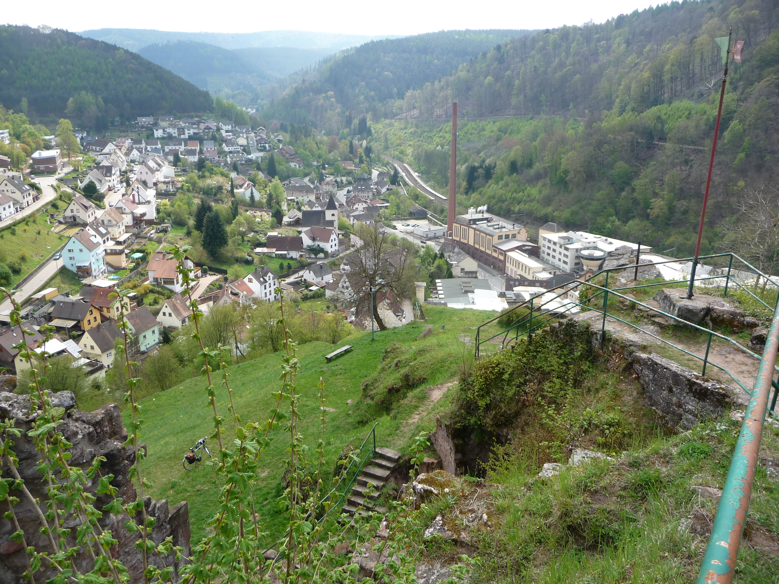 Neidenfels